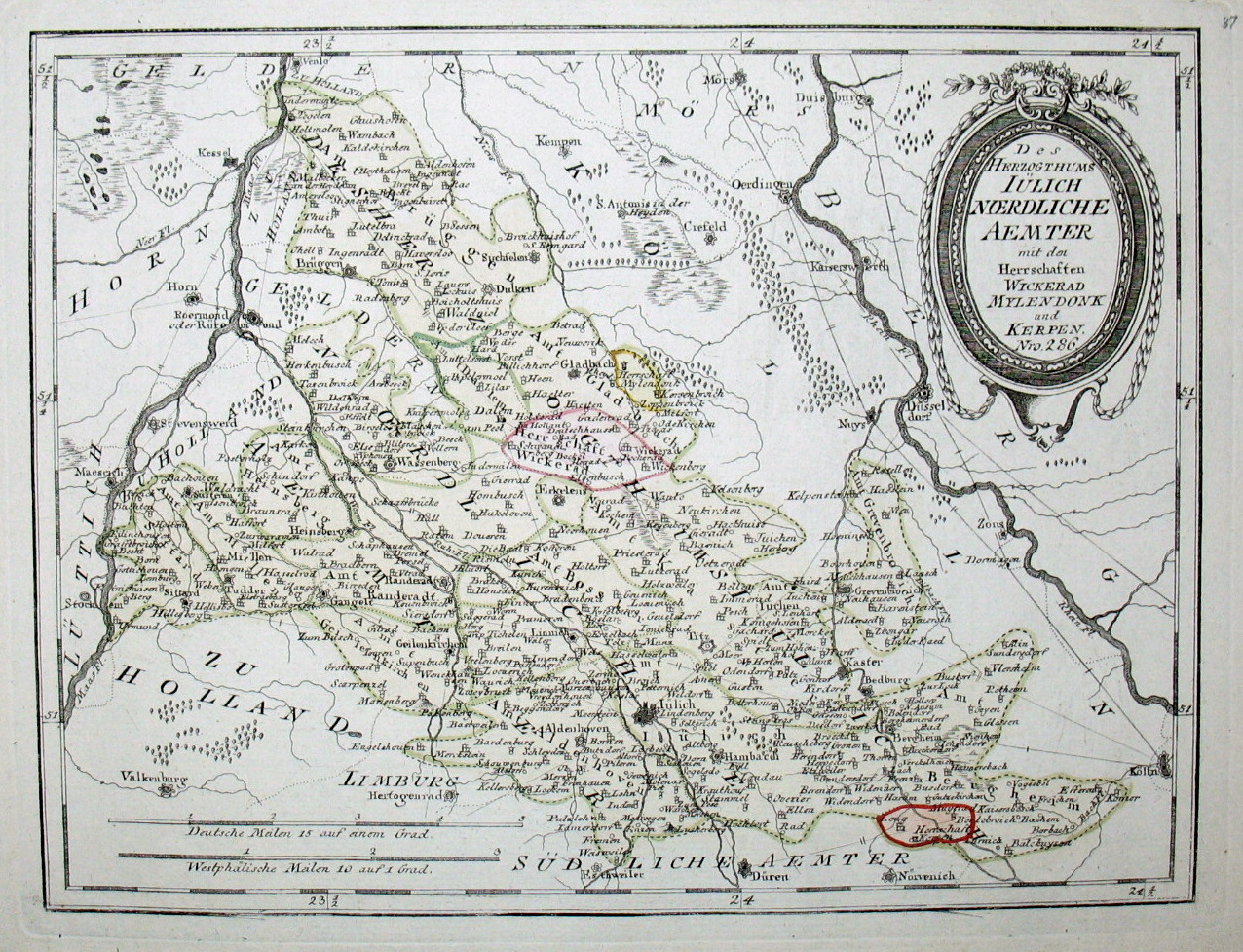 A map of the northern parts of the Duchy of Jülich, a State of the Holy Roman Empire. The Duchy's territory roughly covered parts of the present-day North Rhine-Westphalia in Germany and Limburg province in the Netherlands. Also shown are the dominions of Wickerad Mylendonk and Kerpen.